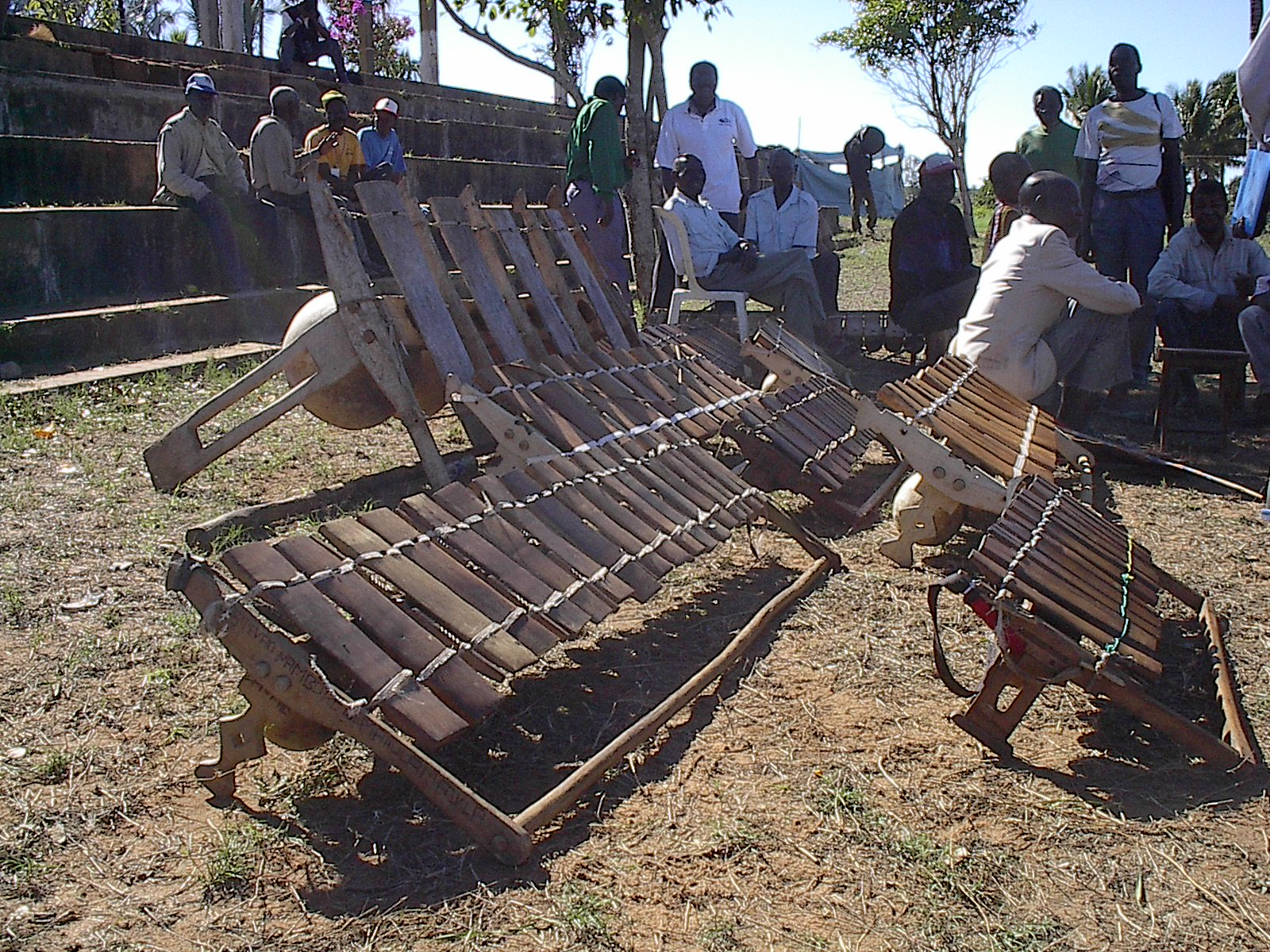 Photo Taken By Kolby Granville